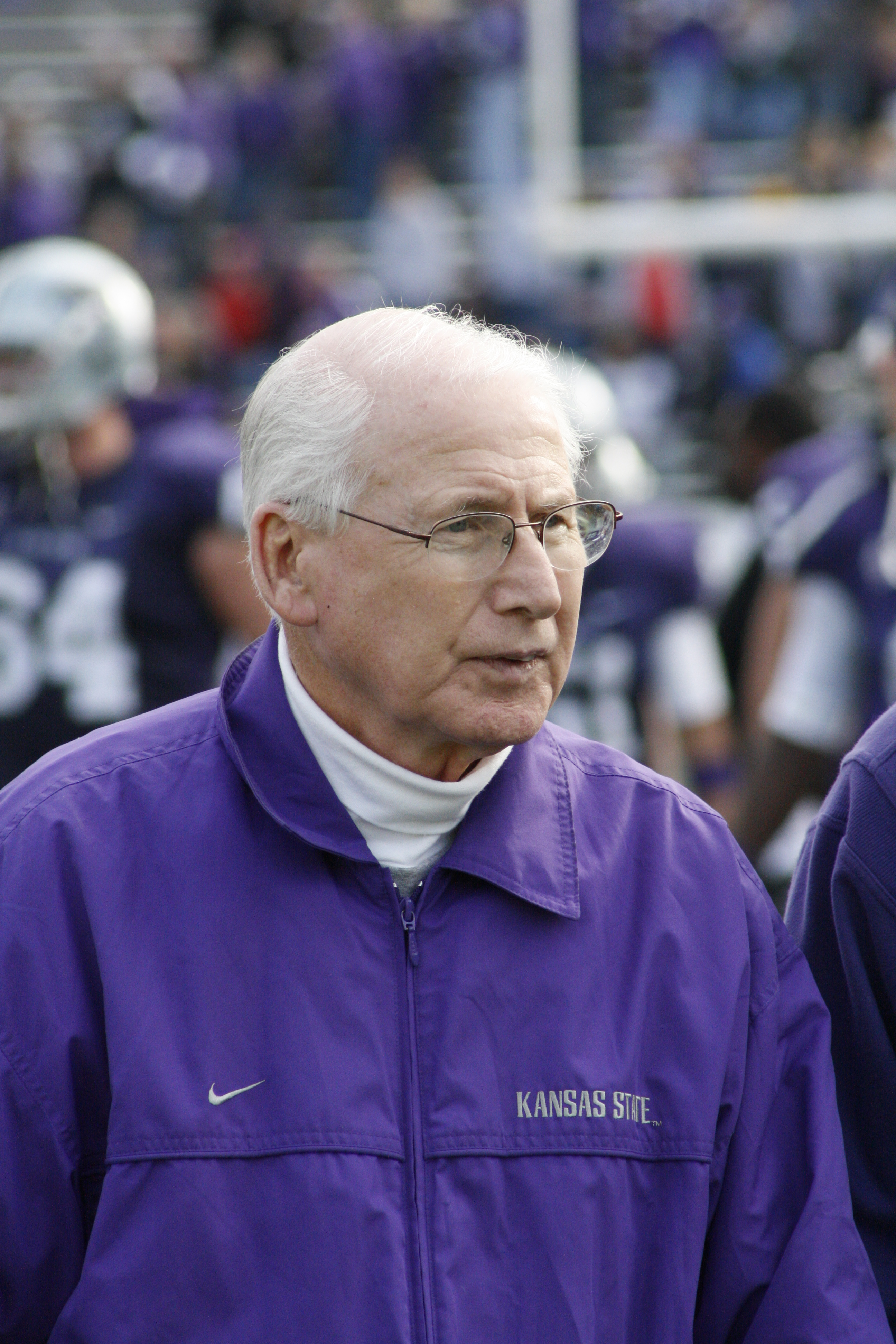 Coach Bill Snyder during the Kansas State Wildcats versus the Missouri Tigers game on November 14th, 2009 in Manhattan, Kansas.